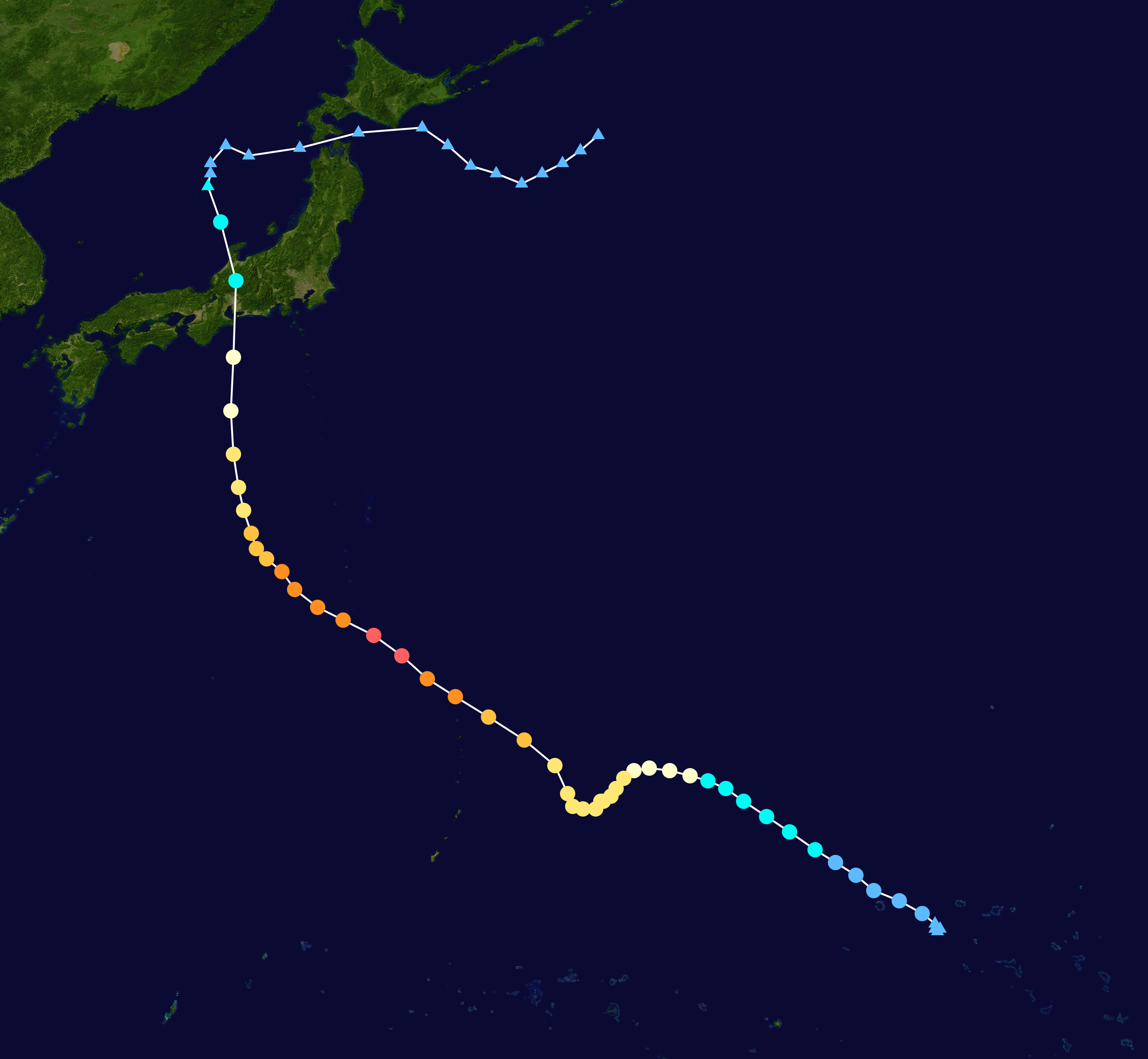 Typhoon Bess (1982) track. Uses the color scheme from the Saffir-Simpson Hurricane Scale.